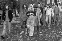 Artists in Svárov, konfrontace